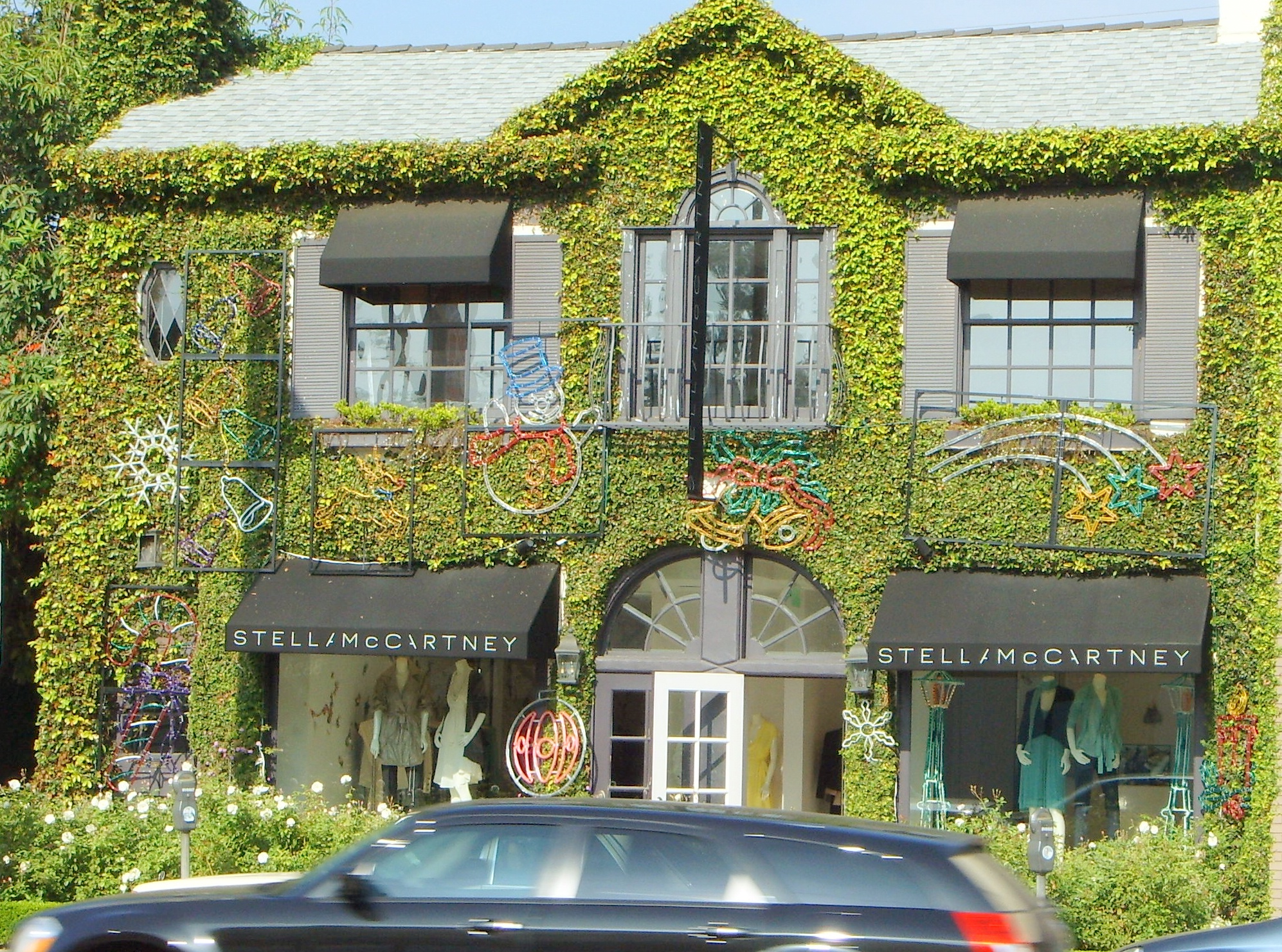 Stella McCartneys Store in Beverly Hills